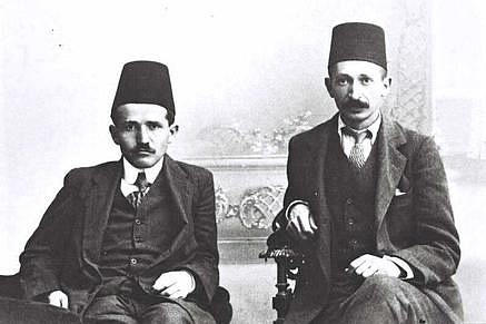 Ben-Zvi and David Ben Gurion in Istanbul